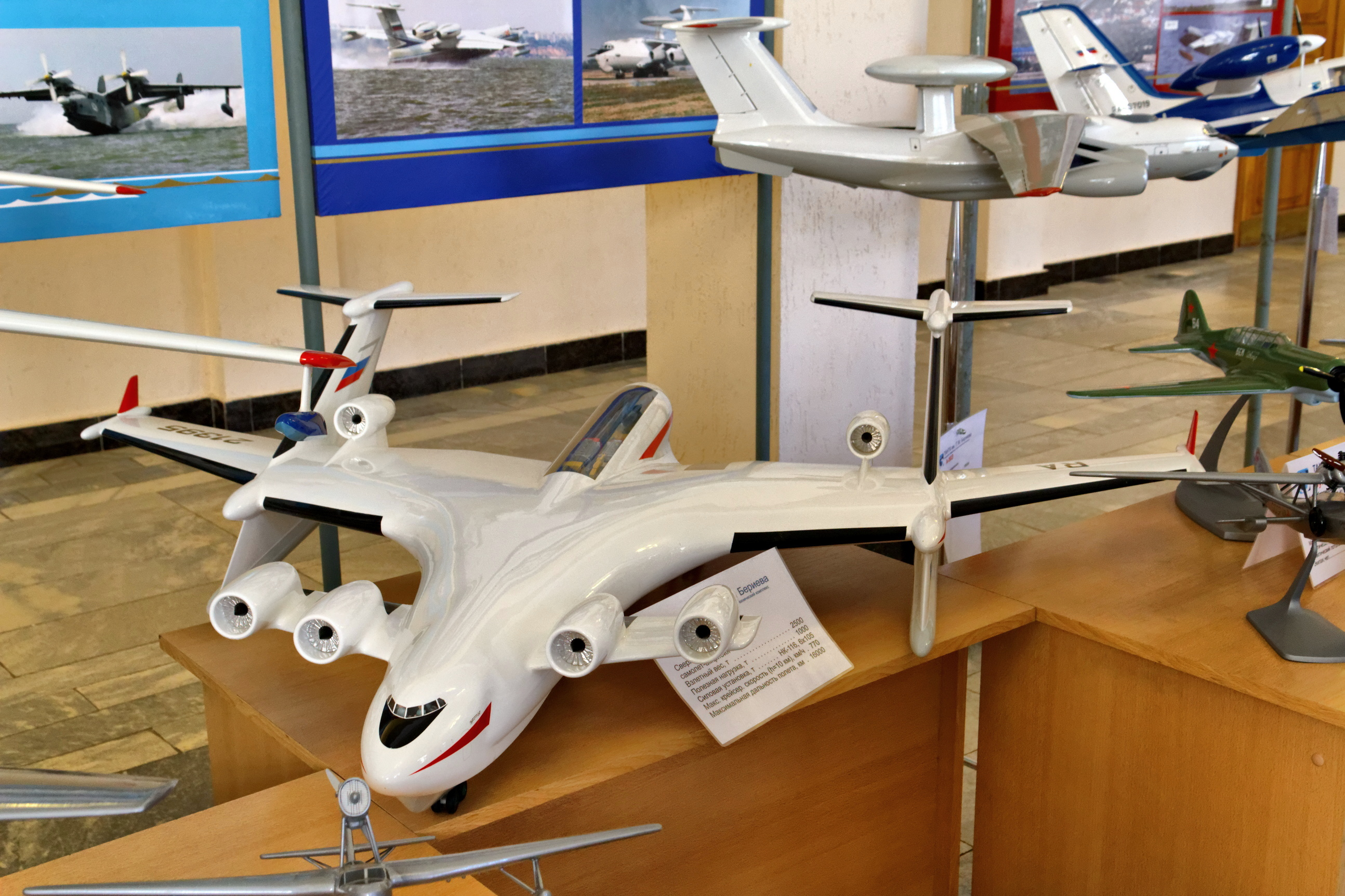 Taganrog. Beriev Aircraft Company. Beriev Be-2500 (model)